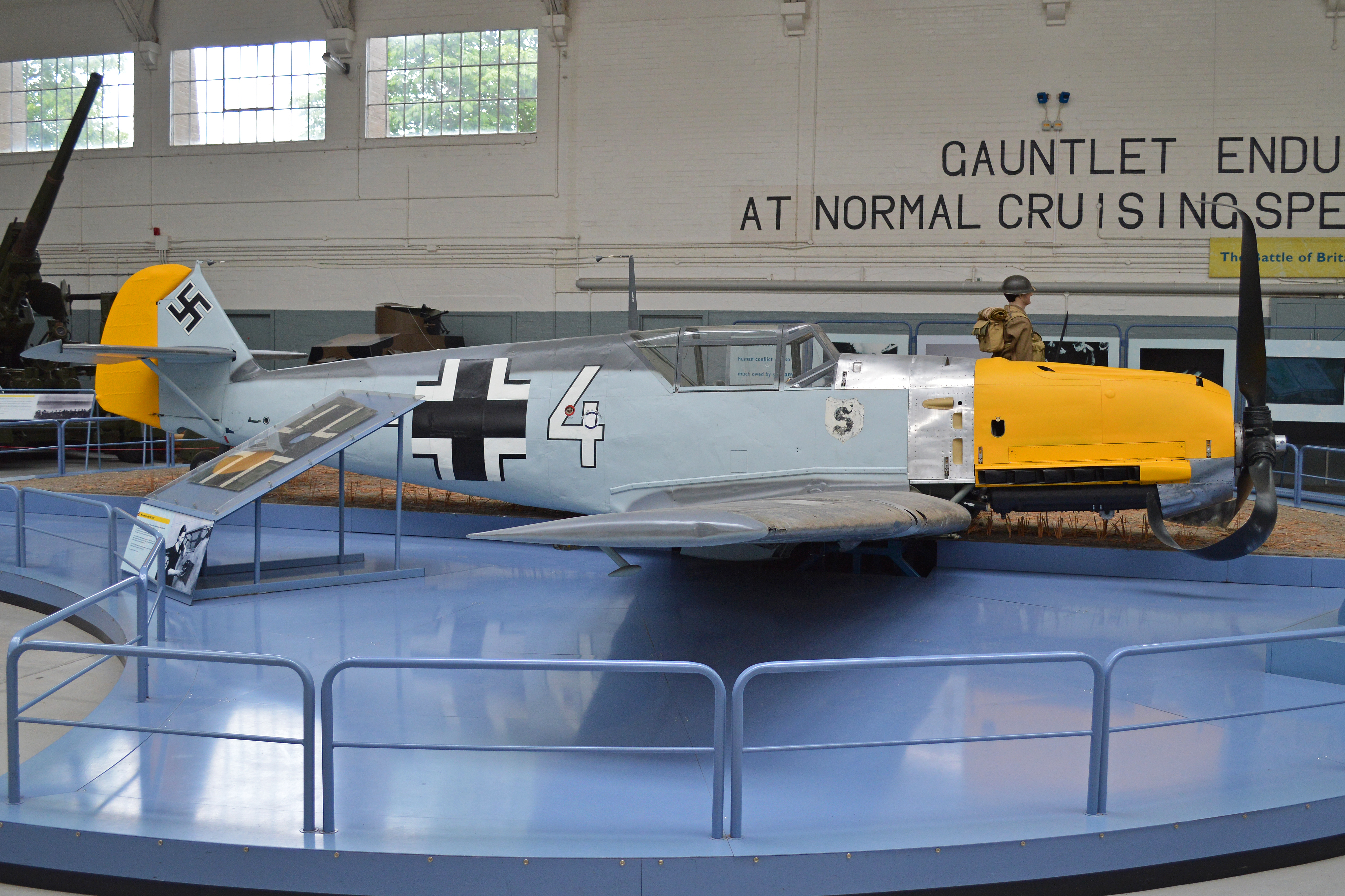 This Messerschmitt Bf-109E-3 (s/nr 1190) belonging to the 4th Staffel of Jagdgeschwader (fighter group) 26 (4/JG26) was flown by 22-year-old UnterOfficier Horst Perez from Marquise-Est in France on September 30, 1940 when he was shot down by Sgt. Kingsby of RAF 92 squadron flying a Spitfire over Beachy Head and belly-landed wheels up at East Dean, near Eastbourne, Sussex. Perez surrendered to P.C. Walter Hyde and the local Home Guard, who shot Perez in the hand and jaw while he was surrendering. The aircraft was was sent to Canada for evaluation. While there its original engine was lost. Originally Gruppenkommandeur Karl Ebbighausen's aircraft, he was also shot down in another Bf-109E-4 on August 16, 1940. His five victory markings are marked on the tail, two Dutch aircraft, one french, and two British. 1190 was manufactured in Leipzieg on September 18, 1939 as a Bf-109E-3 with a Daimler-Benz DB601A engine. Later it received the DB-601N, a more powerful engine, upgrading its version to 4/N. It is displayed in an 'as found' although partly restored condition at the Imperial War Museum, Duxford. UK. 12-7-2014